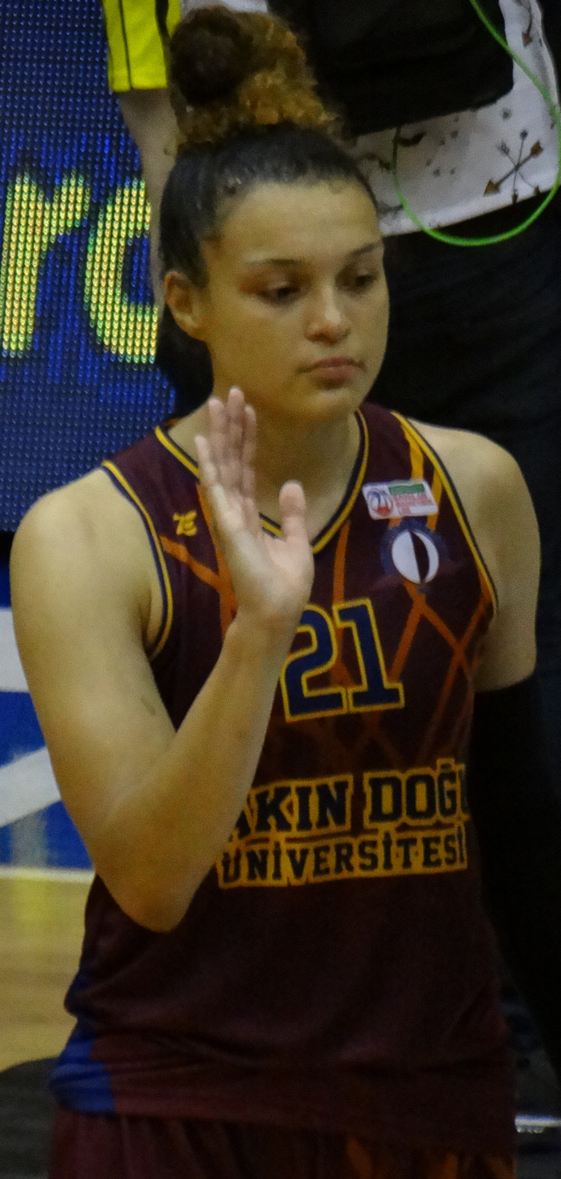 Kayla McBride Fenerbahçe Women's Basketball vs Yakın Doğu Üniversitesi (women's basketball) TWBL 20180521